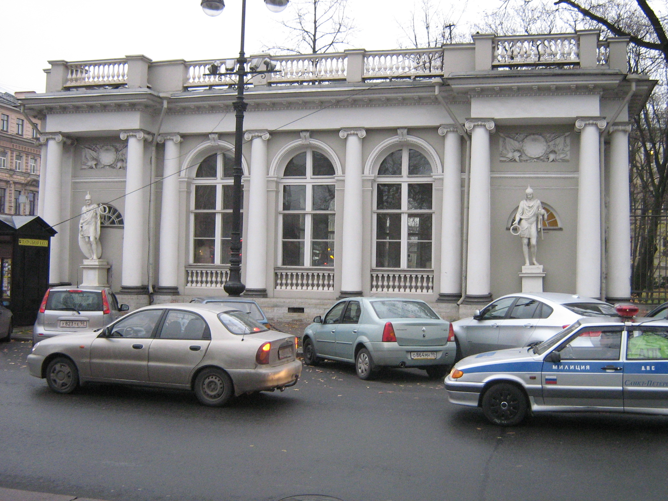 Saint Petersburg (Russia), Nevsky Avenue.